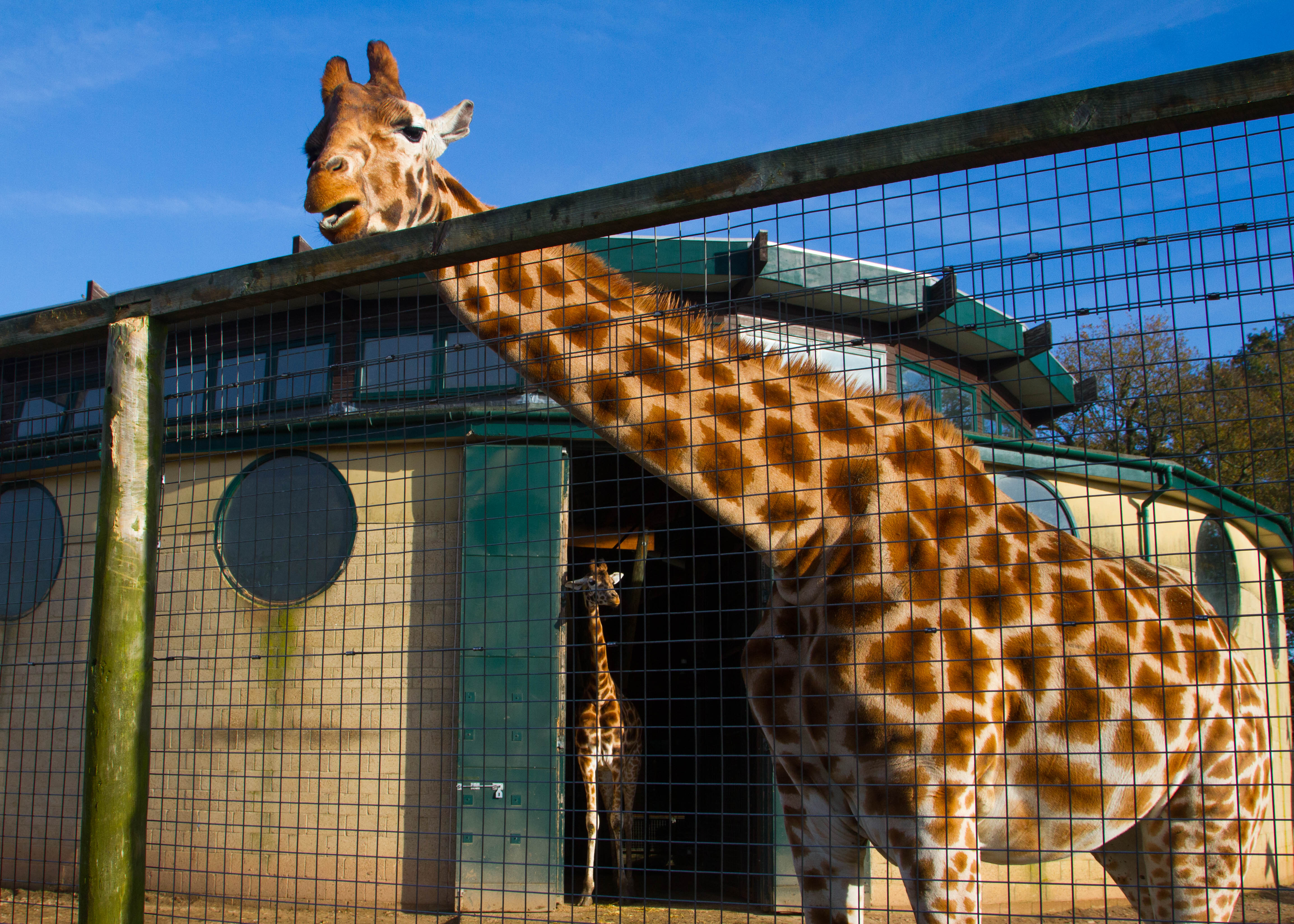 Giraffe at Marwell Zoo, Hampshire, England